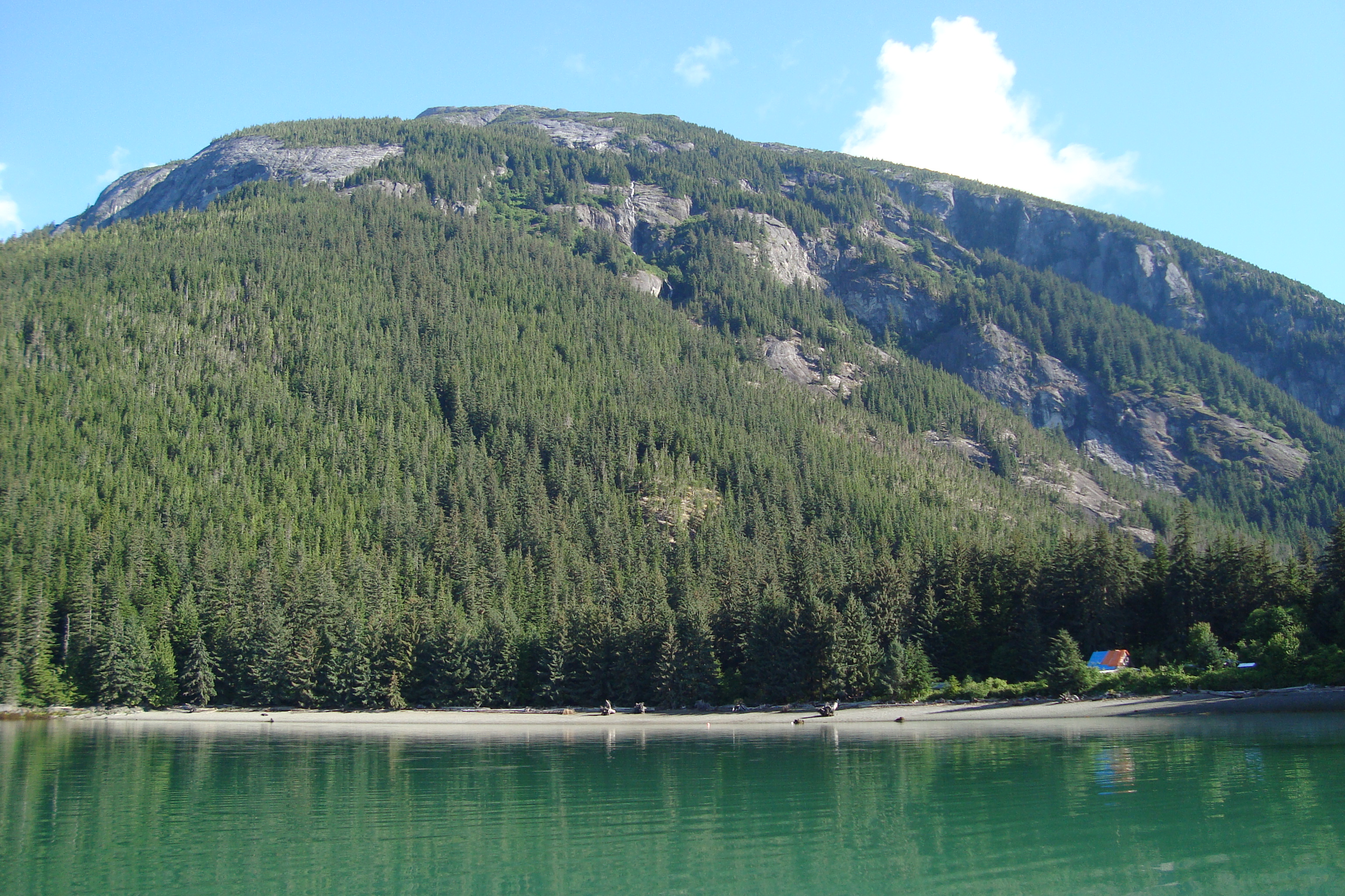 Picture of Kemano Village in July 2008, taken by me while on vacation with family